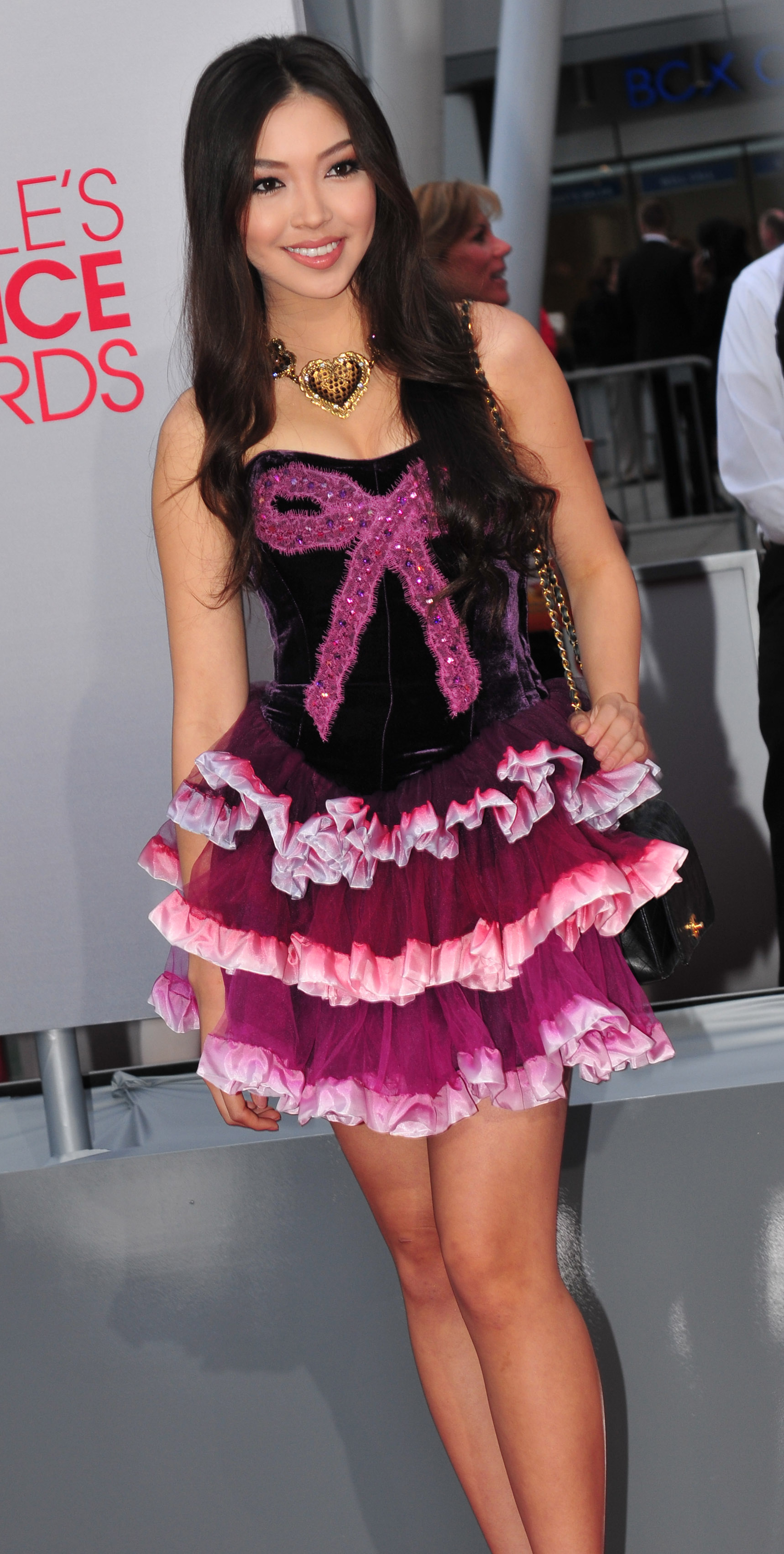 Courtney Coleman on the red carpet at the 38th People's Choice Awards on January 11, 2012, at the Nokia Theatre in Los Angeles, California.